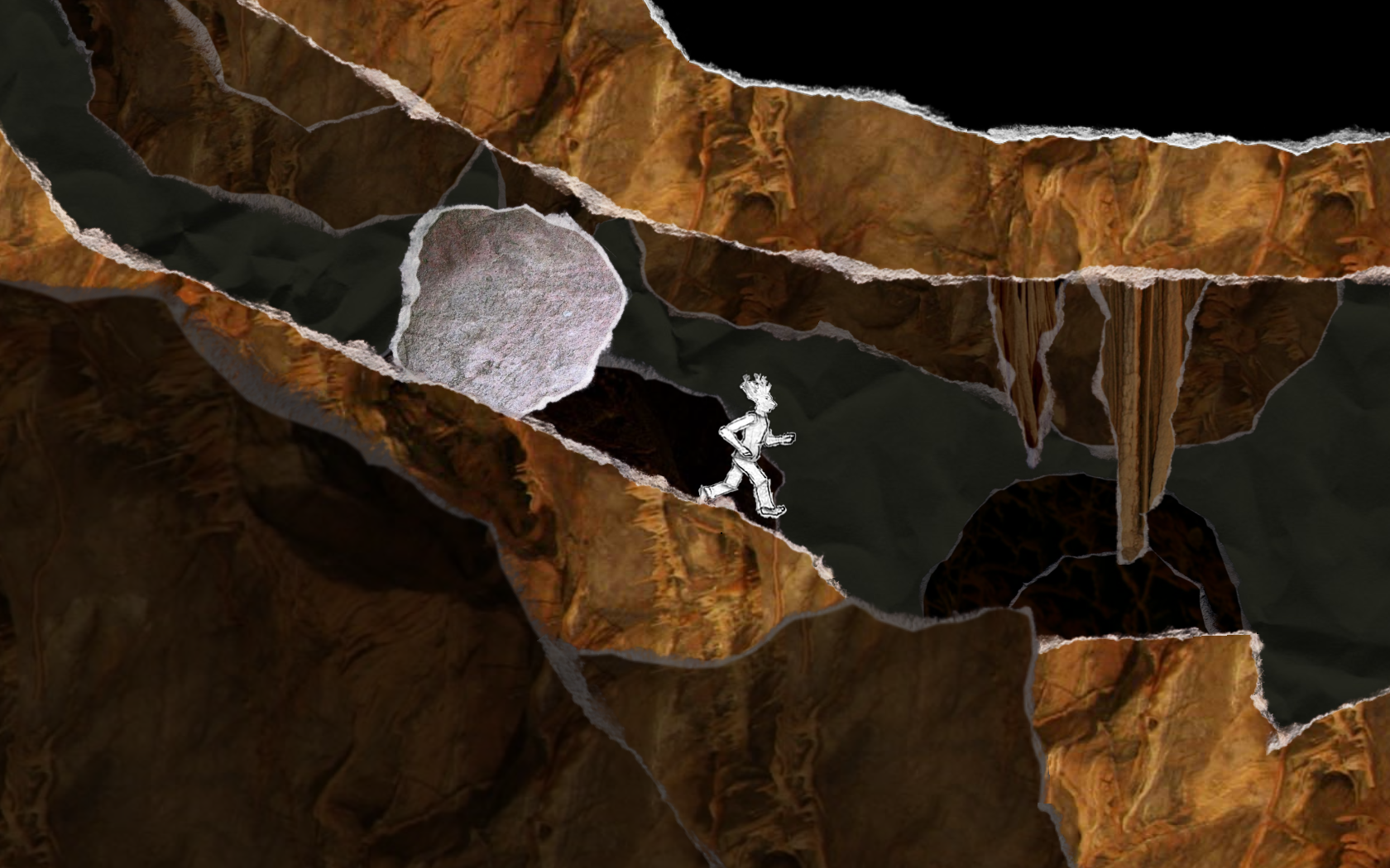 And Yet It Moves screenshot, by Broken Rules (game developer)